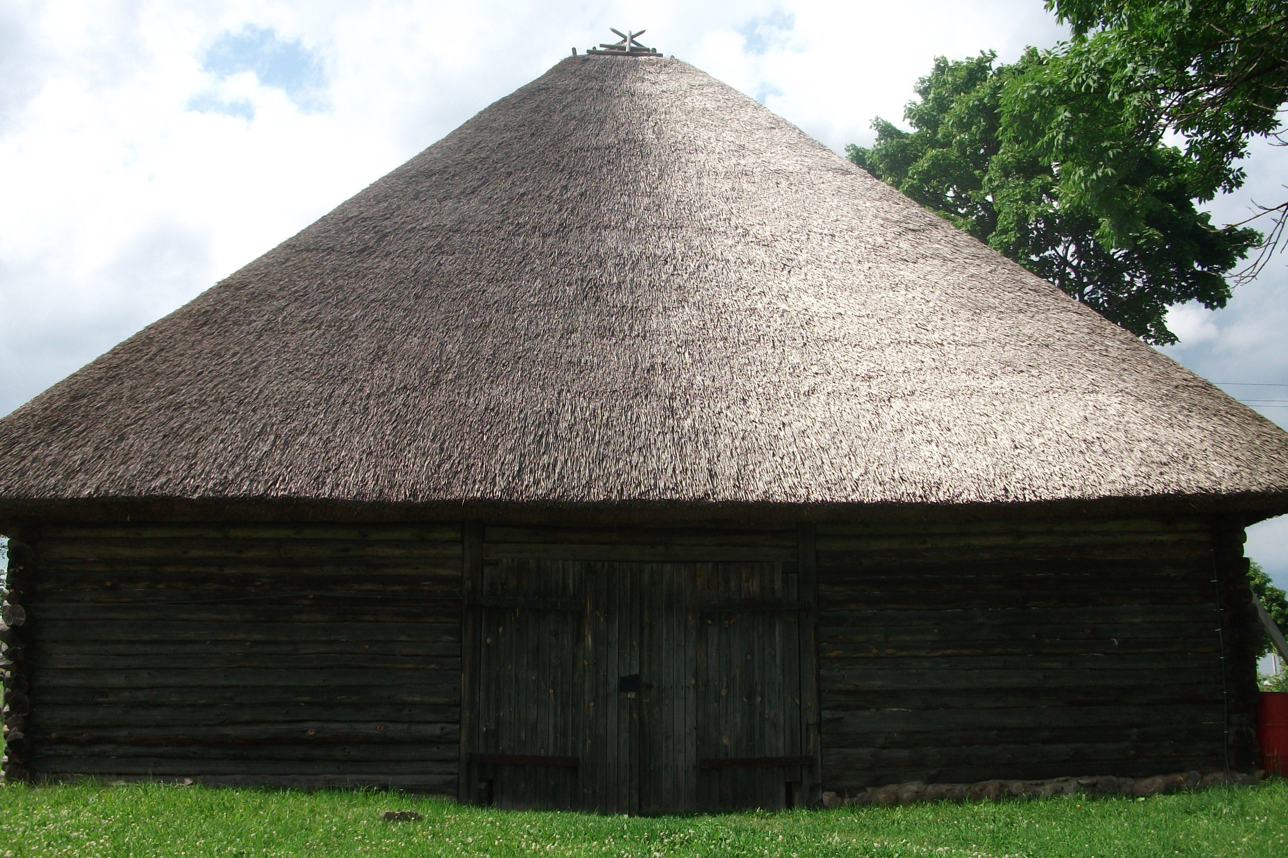 Barn in Rakutsyoushchyna, Minsk region, Belarus